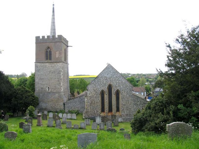 St Mary, Standon, Herts